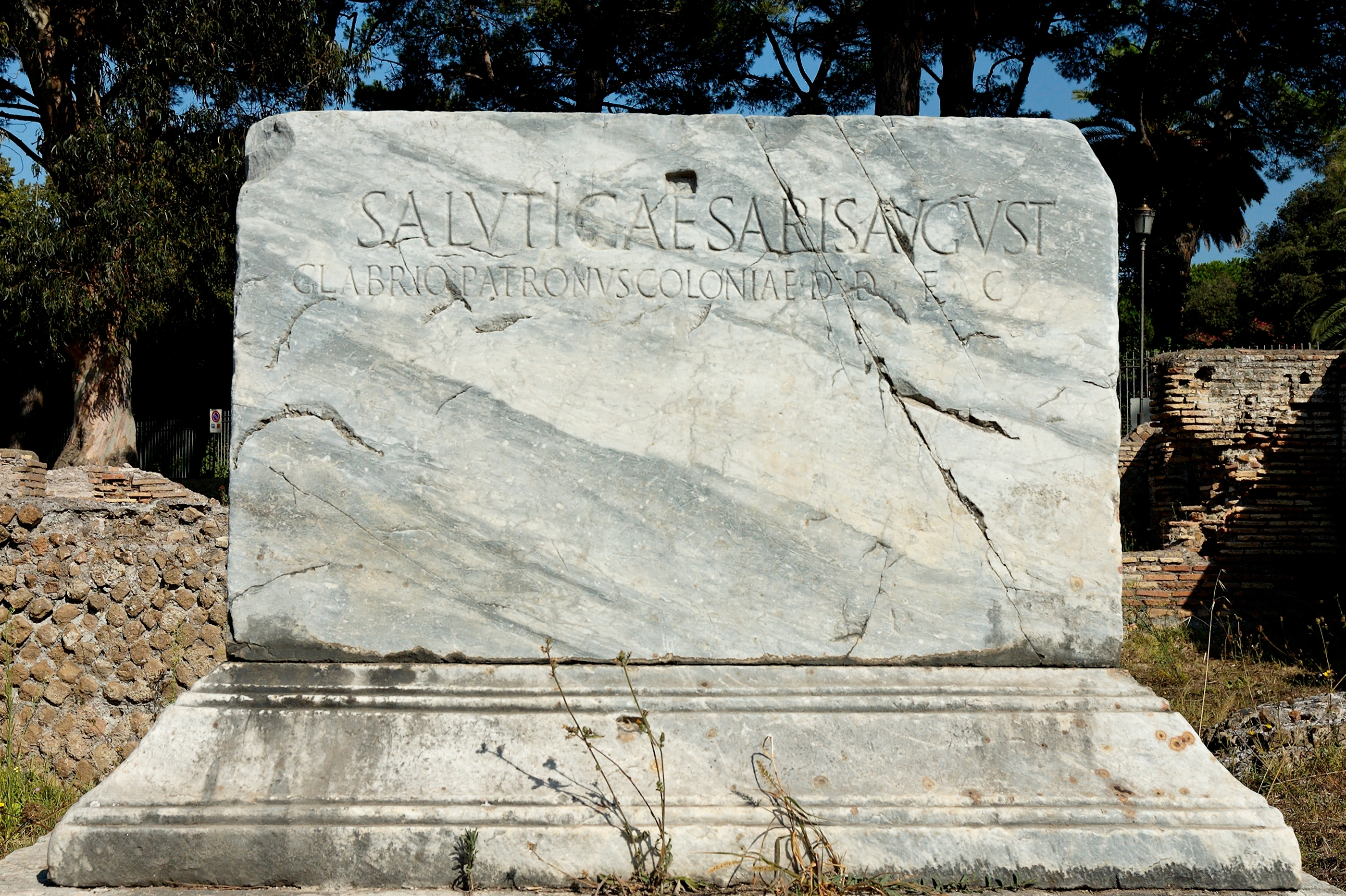 “Saluti Cæsaris Augusti Glabrio, patronus coloniæ, decreto decurionum faciundum curavit”, inscription on the base of a statue of Salus Augusti (the Emperor's Health) dedicated by one of the Acilii Glabriones, recording the visit of Ostia by an Emperor. Near the Porta Romana, Ostia Antica.